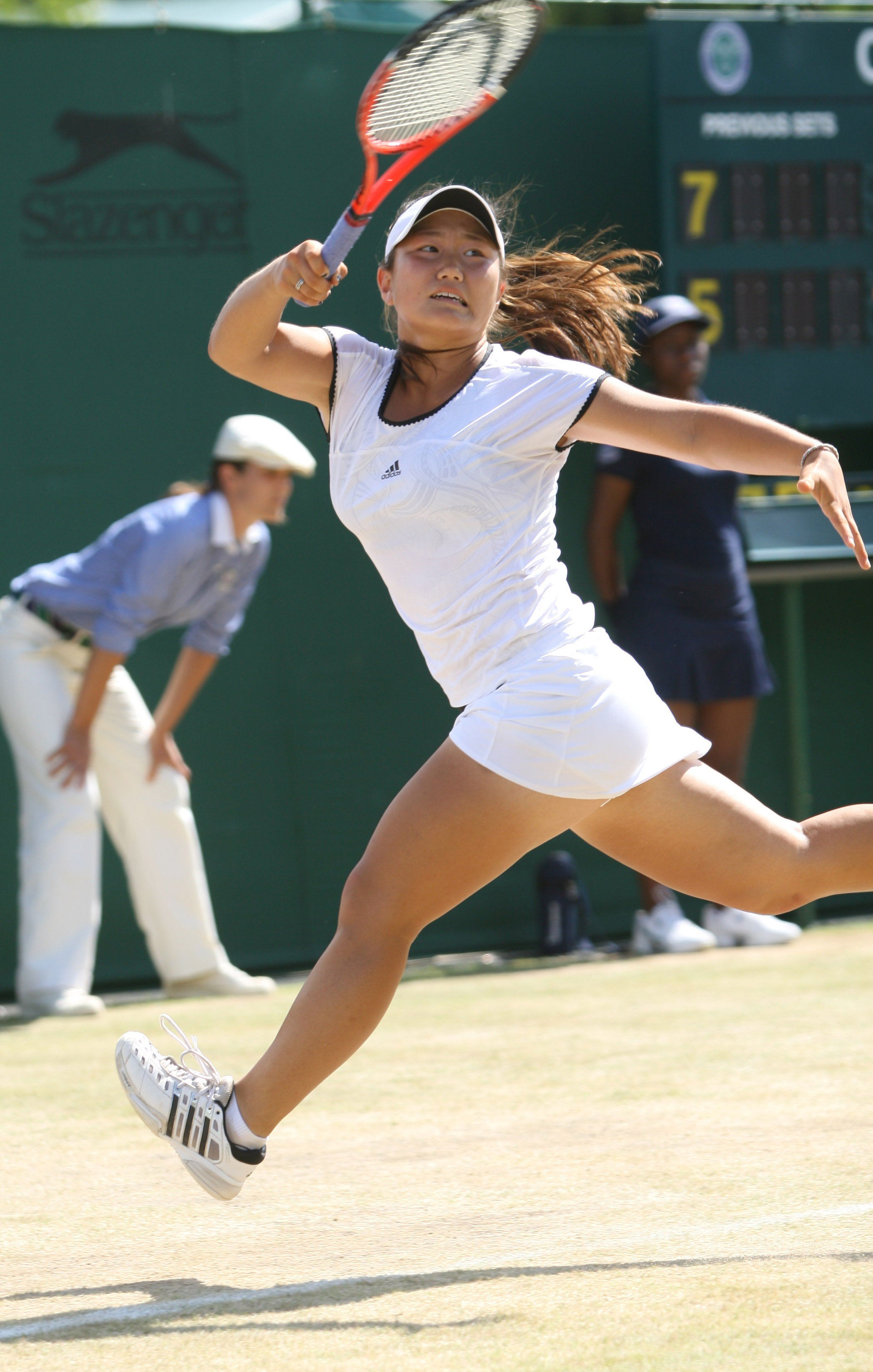 Grace Min playing in the second round of girls singles at Wimbledon on 29th June 2010